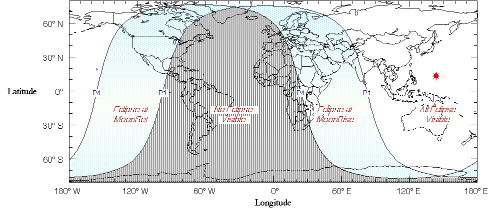 Visibility of the 2009-02-09 lunar eclipse